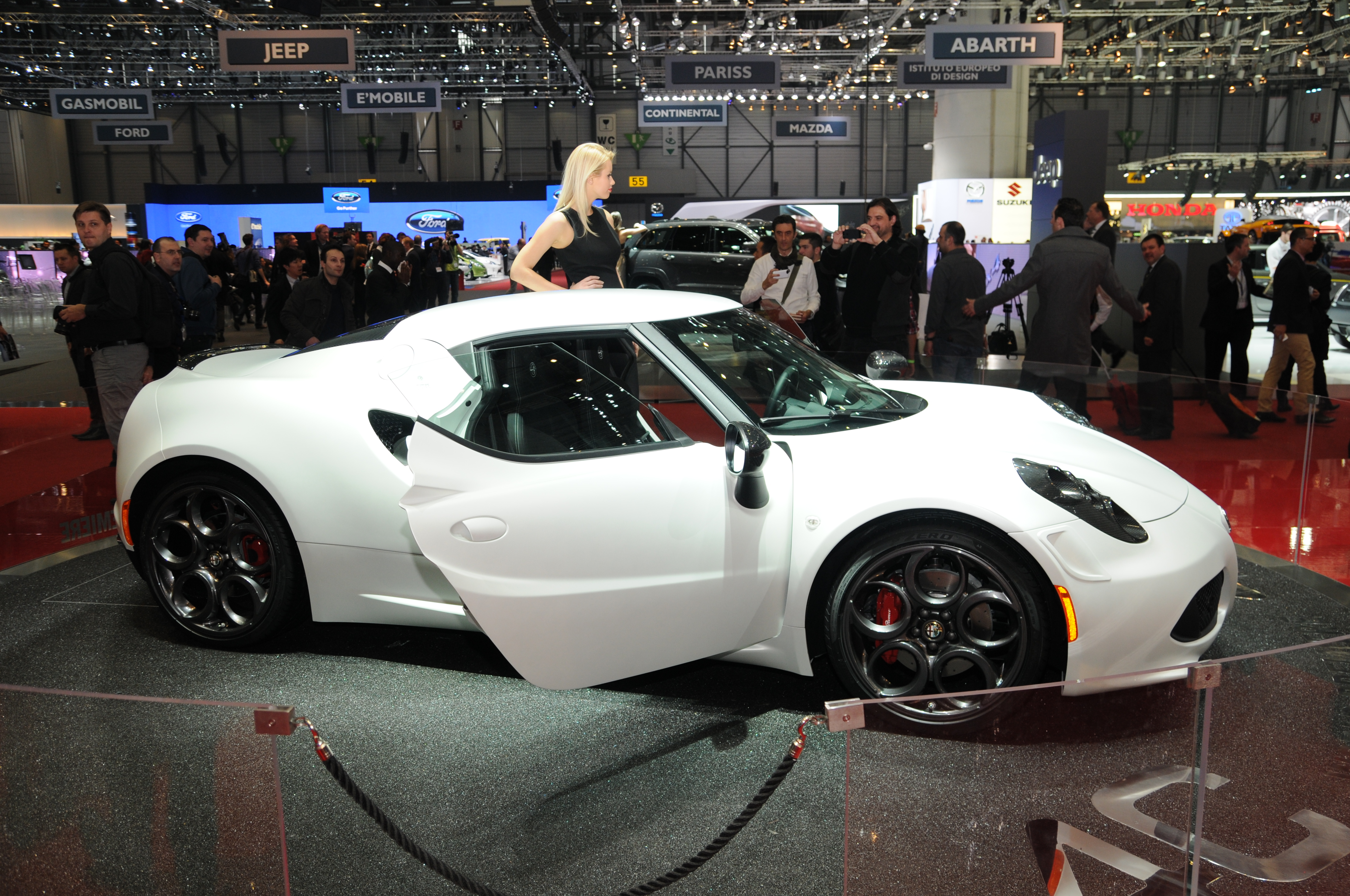 Alfa Romeo 4C at Geneva Motor Show 2013 (photos taken on the first press day)